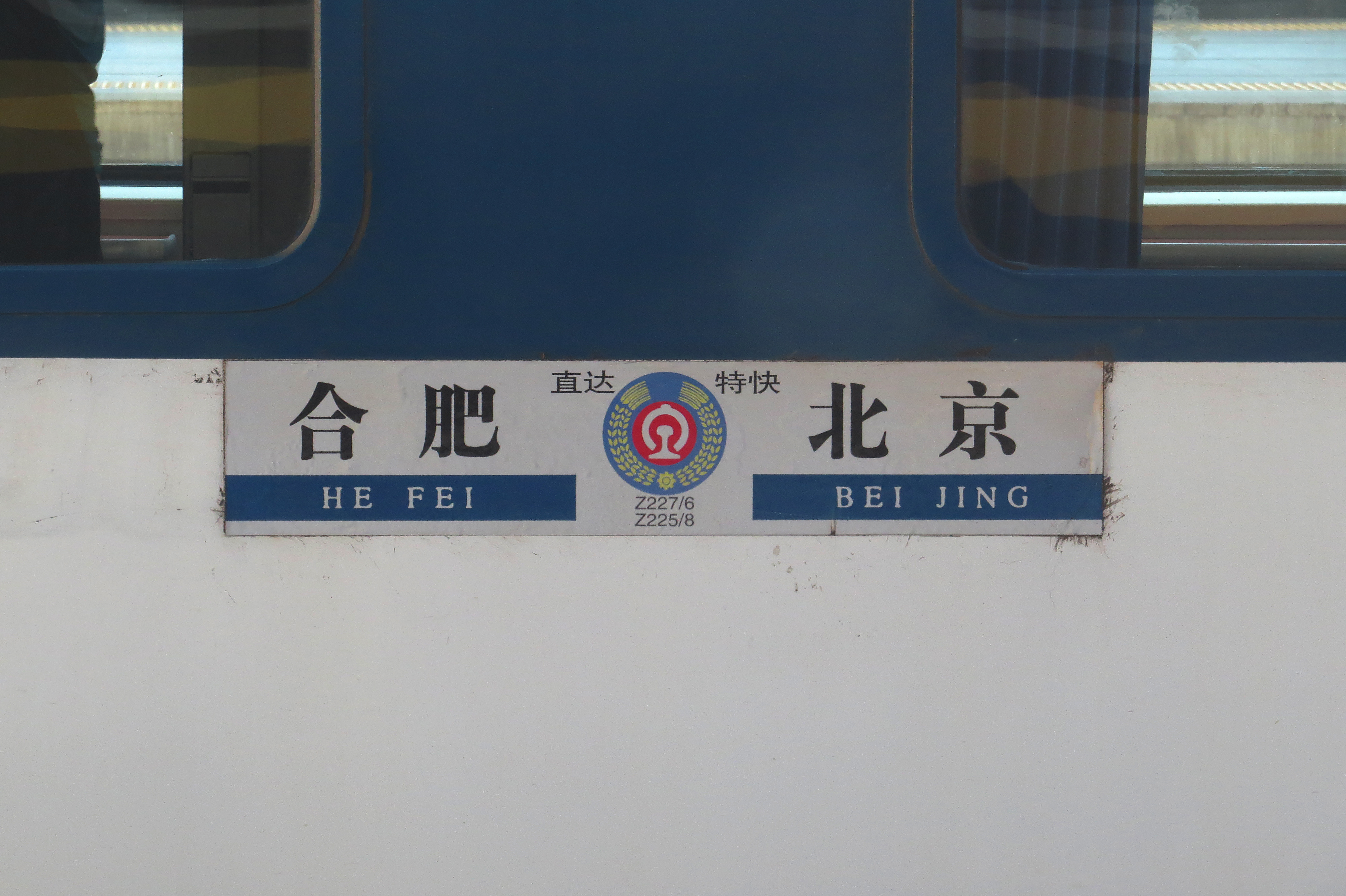 Z226, Hefei to Beijing.